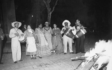 Afroargentines playing candombe porteño near of a bonfire of Saint John of 1938.